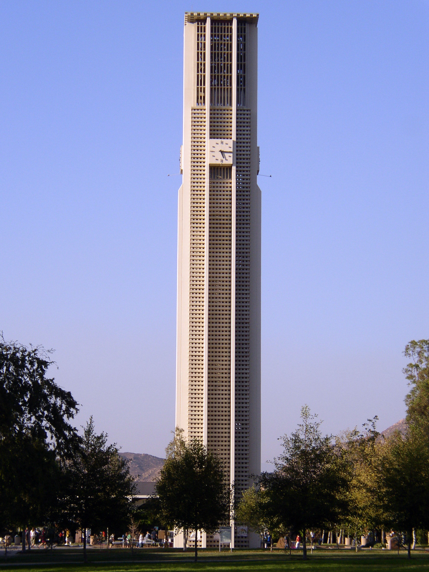 A photograph of the Belltower at University of California, Riverside. This Belltower rings hourly to the song of "O God, Our Help In Ages Past" and is a central piece of the UCR campus.